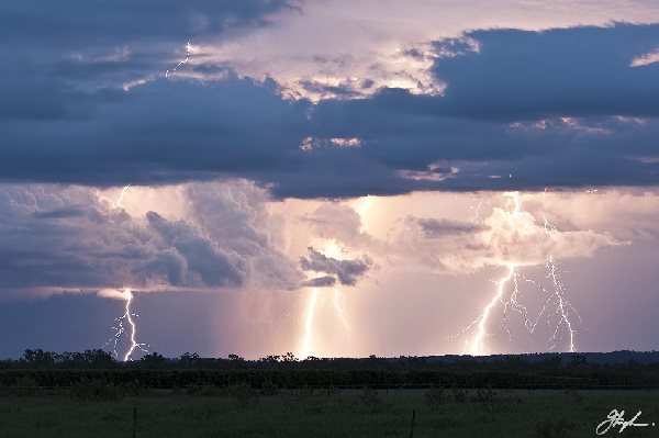 Spectacular wet season electrical storms over Katherine Gorge. Photography copyright of Jacci Ingham.